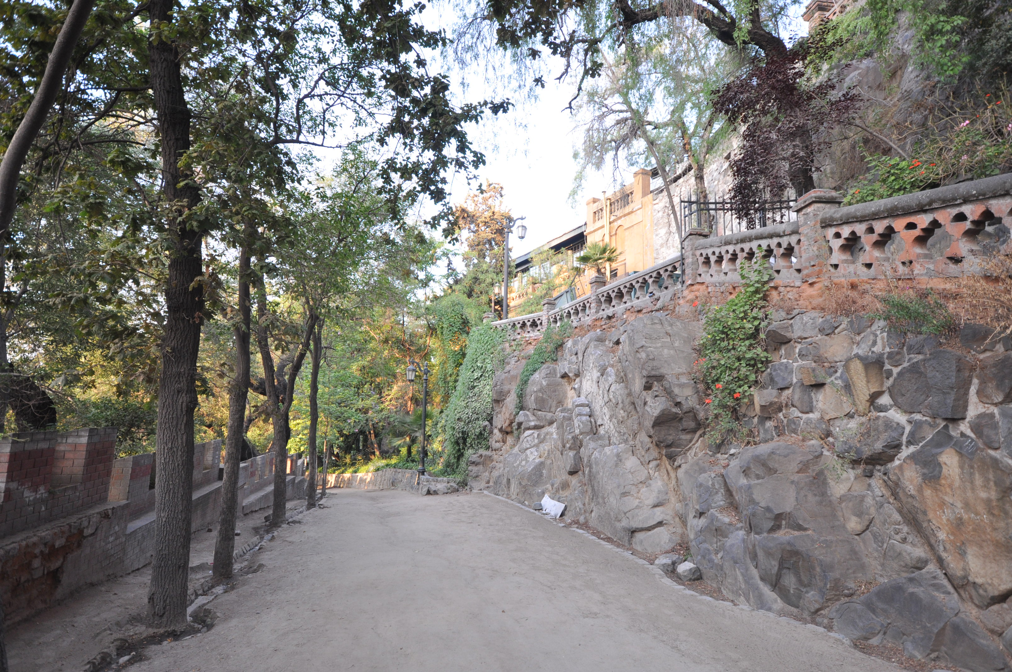 Santa Lucía Hill (Spanish: Cerro Santa Lucía) is a small hill in downtown Santiago, Chile. It borders on Alameda del Libertador Bernardo O'Higgins in the south (there is a metro station near the hill whose name is homonymous), Santa Lucía Street in the west and Victoria Subercaseaux. Santa Lucia Hill has an altitude of 629 m and a height of 69 m. It has a surface of 65.300 m2. Adorned previously with ornate facades, stairways, and fountains, today an adjacent metro station is named for it. Atop the hill, there is a vista point unsurpassed inside Santiago except by Cerro San Cristóbal.